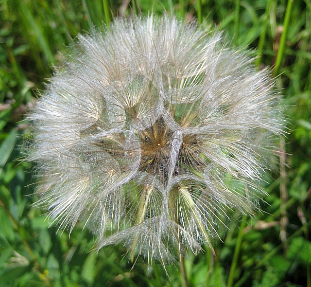 Goatsbeard clock This marvel of nature can reach 75mm in diameter. Spotted on the western perimeter of Lofthouse Colliery Park adjacent to the railway line.